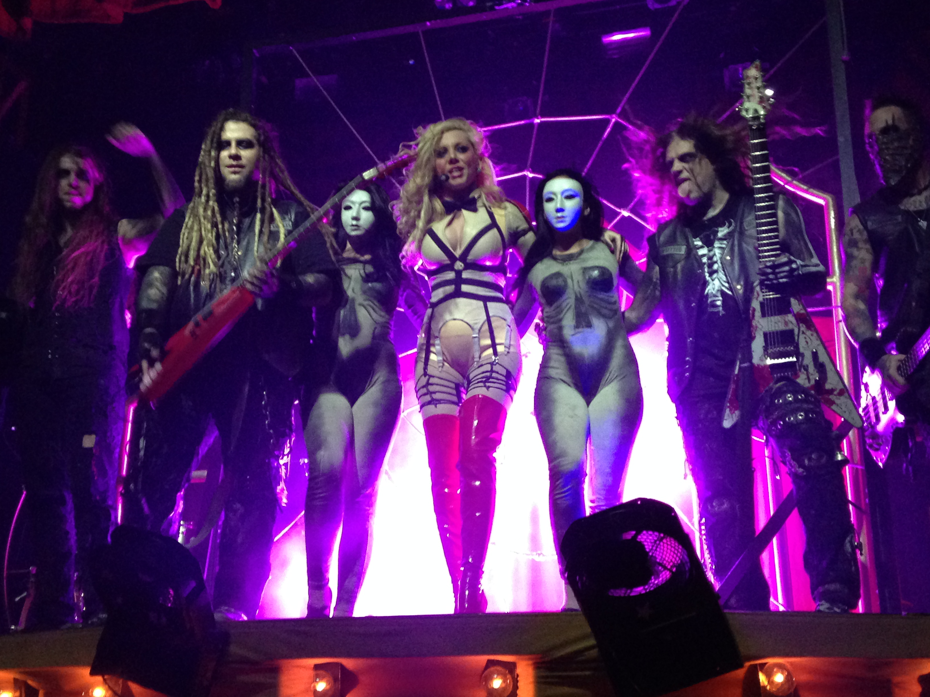 In This Moment performing at the Black Widow tour in New York City, November 2014.